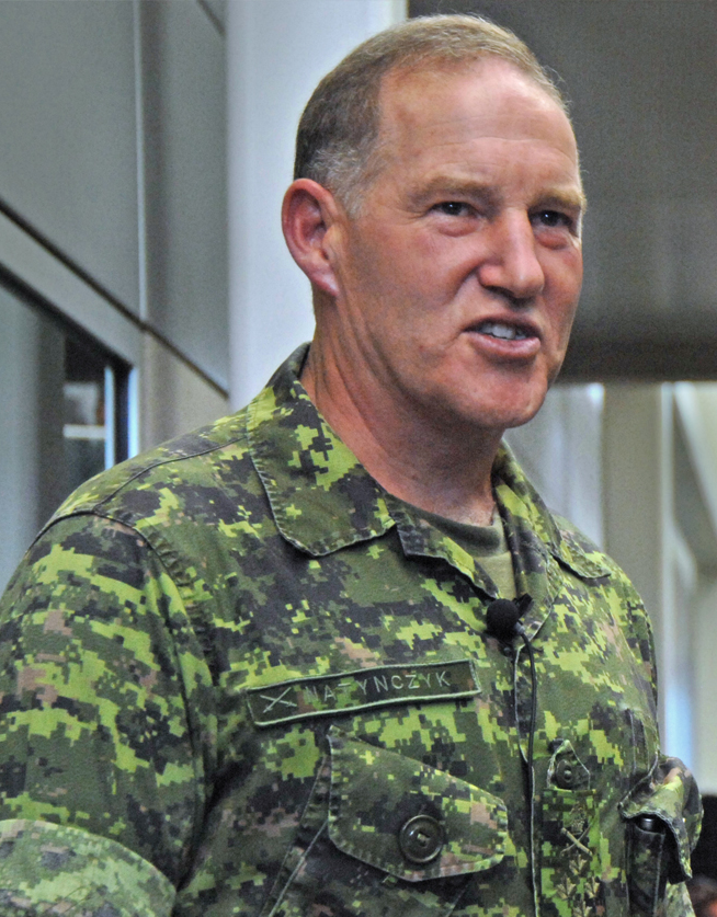 Canadian Chief of Defence Staff Gen. Walter J. Natynczyk addresses personnel at the headquarters of North American Aerospace Defense Command and U.S. Northern Command at Peterson Air Force Base, Colo., on . Natynczyk visited NORAD as part of a familiarization tour after his appointment to the position of CDS.